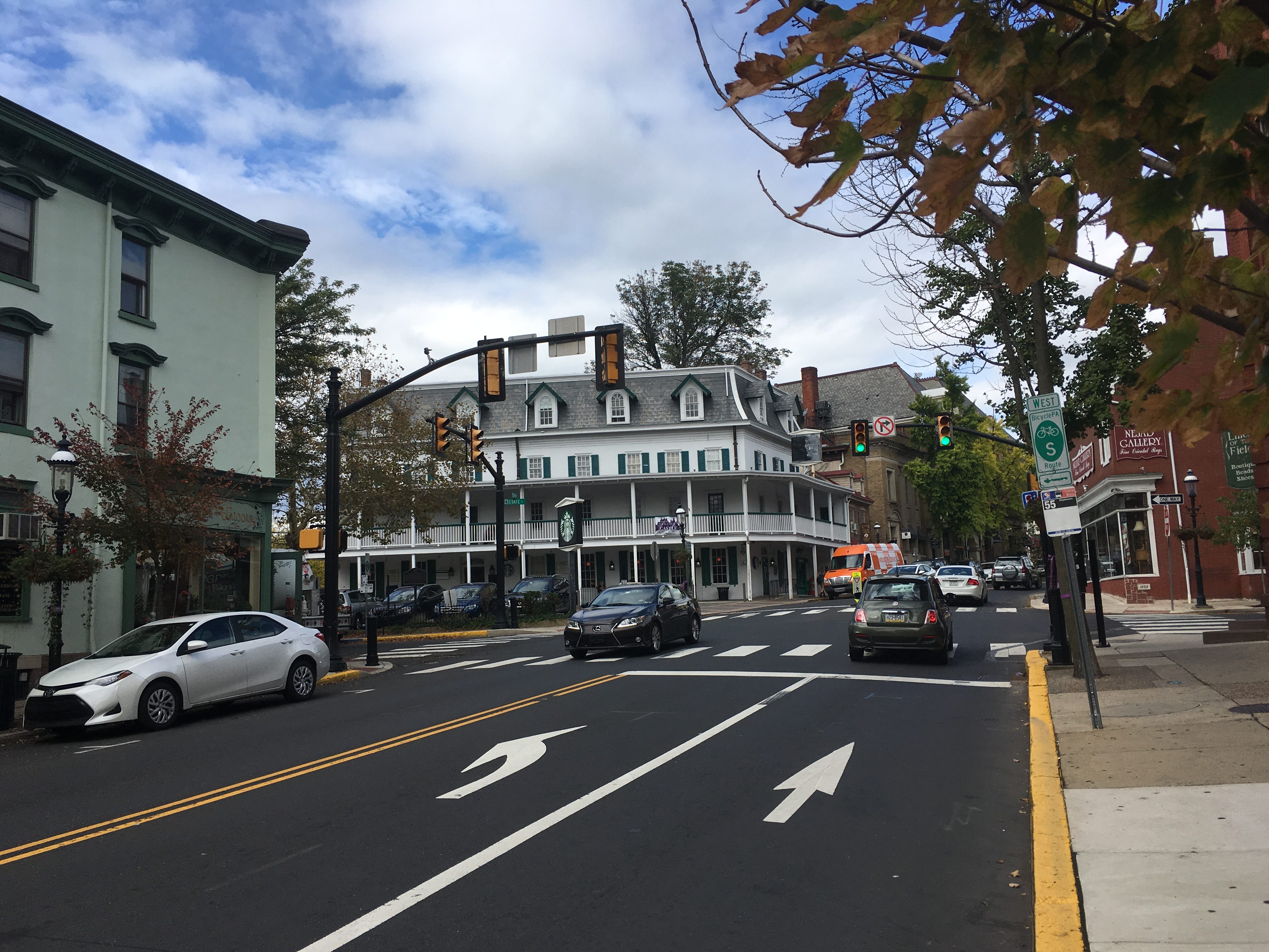 Northbound Main Street at the intersection with State Street in Doylestown, Pennsylvania